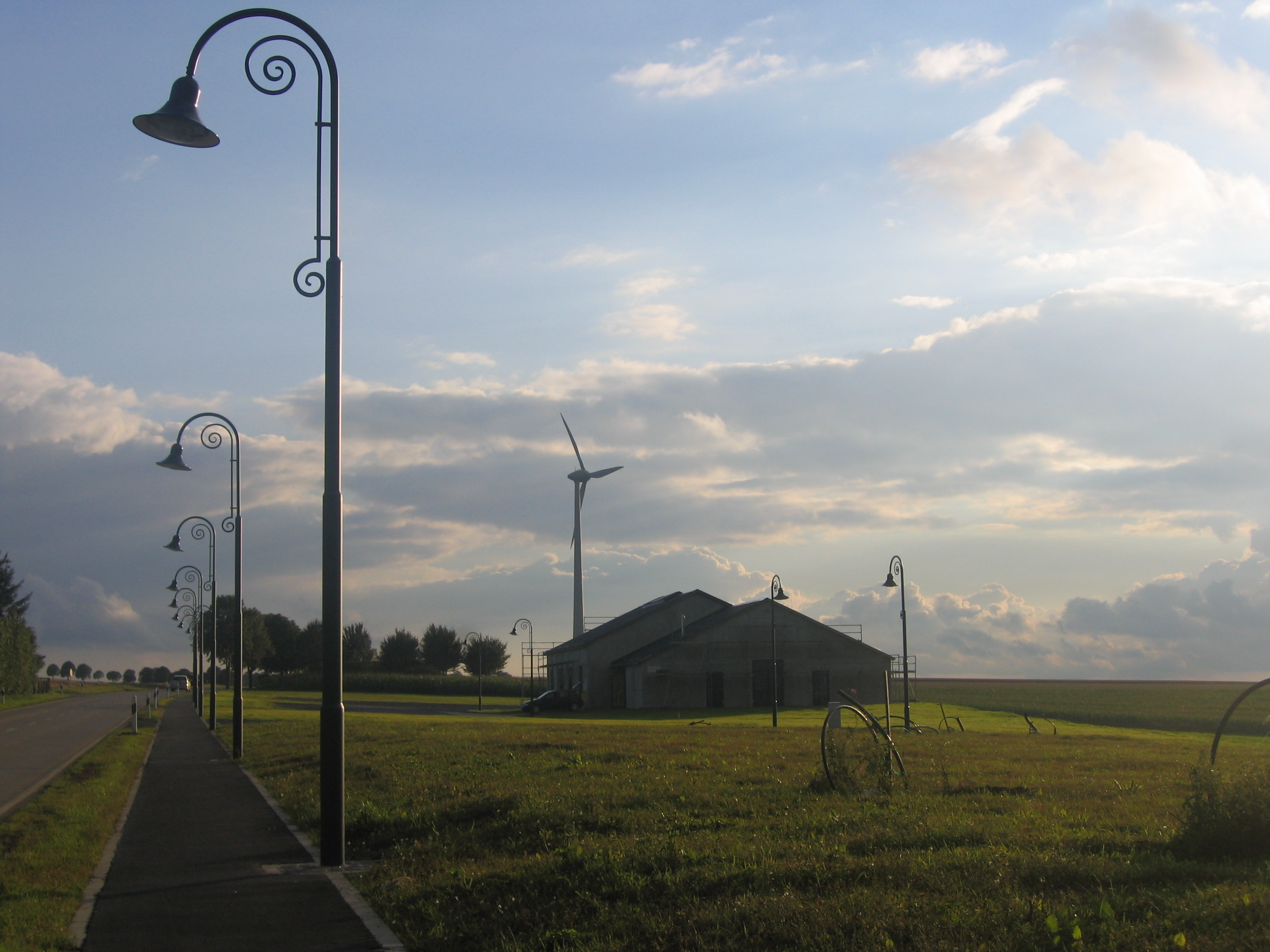 Buurgplaatz, Luxembourg.